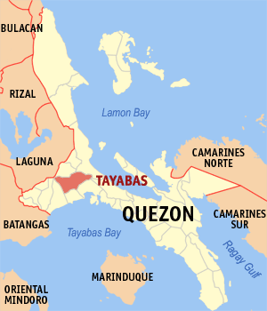 Map of Quezon showing the location of Tayabas